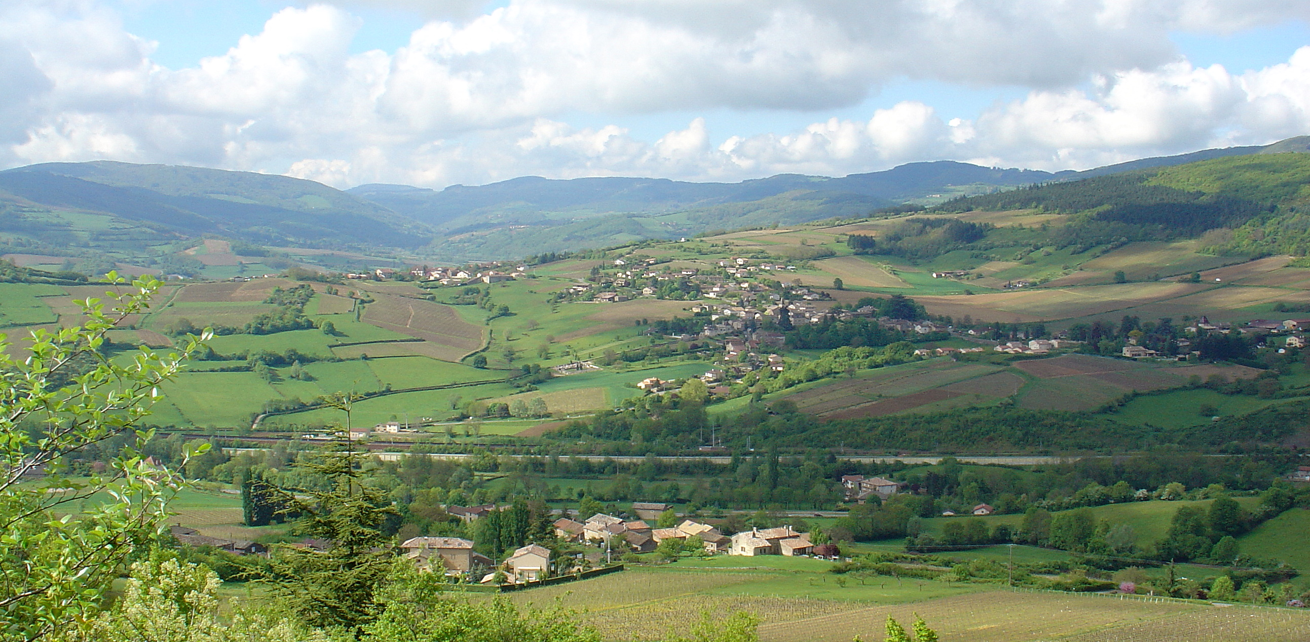 The village of Milly-Lamartine, Saône et Loire (71) - France. In this village grew the french poet and politicien Alphonse de Lamartine (1790 - 1869)